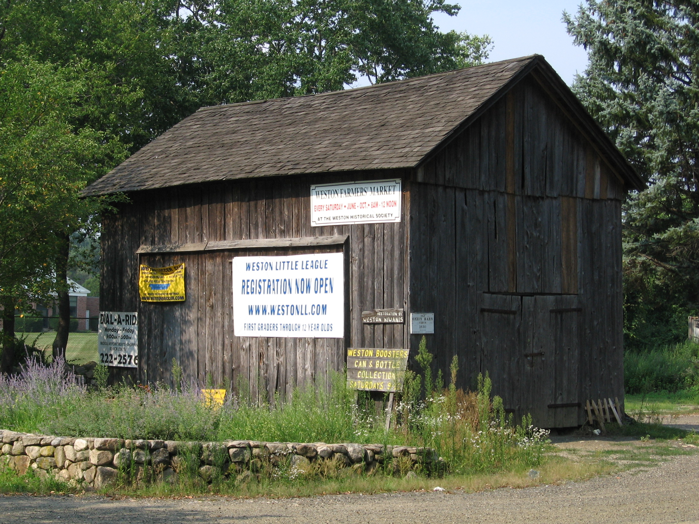 The Onion Barn, built in 1830, serves as the community bulletin board in Weston, Connecticut